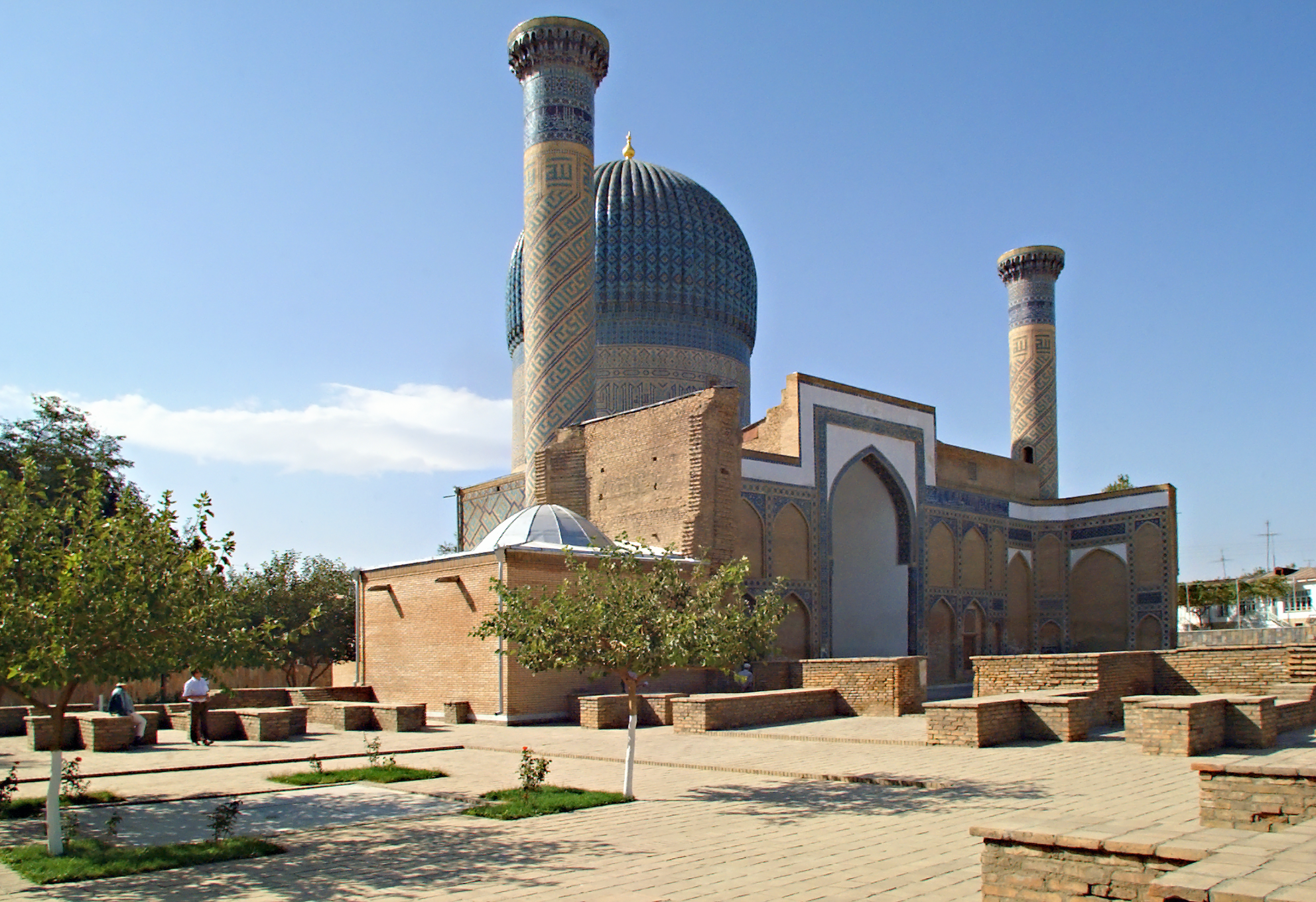 mausoleum Gur-e Amir in Samarqand.